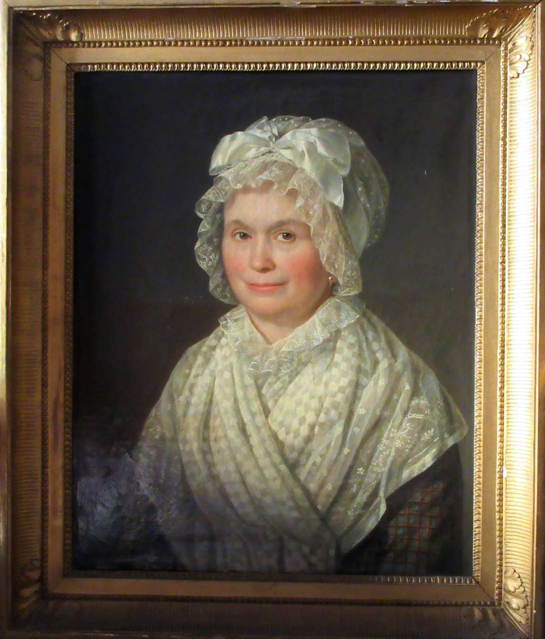 Portrait Katharina Lennig maiden name Mentzler Mainz Rheinland Pfalz painted by Kaspar Schneider around 1805